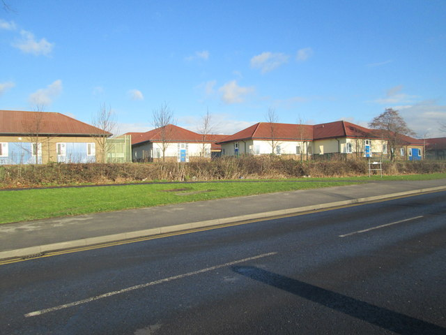 Fieldhead Hospital - viewed from Bar Lane